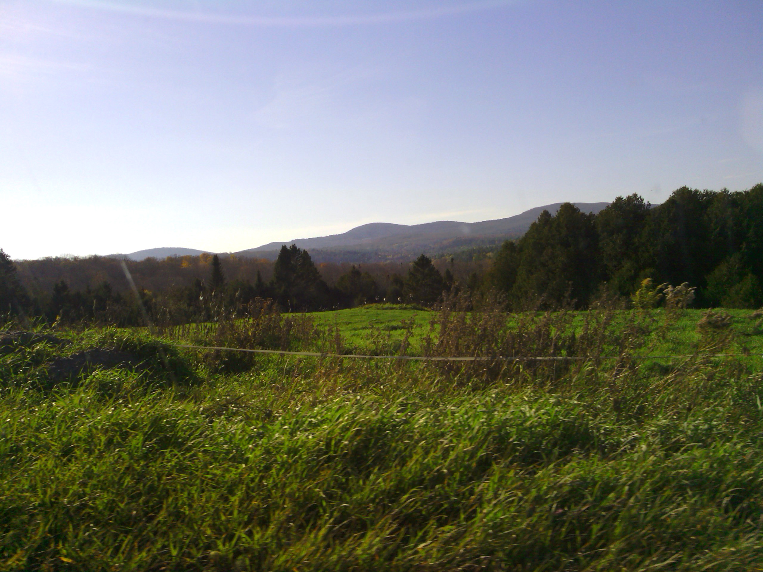 Self taken photograph of field, forest, and distant view of hills in Danville, Vermont. Parked at the side of a road, in the Autumn.